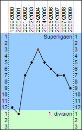 Esbjerg fB. League ranking, last 10 years.